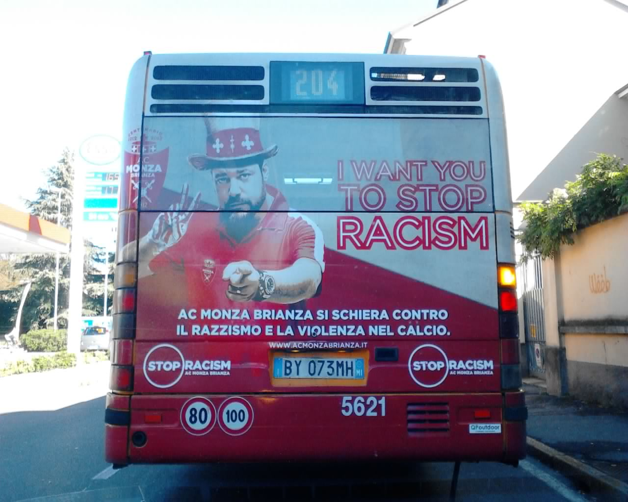 Anthony Armstrong Emery in a spot against racism (MONZA ITALY)